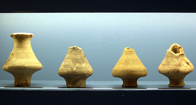 Roman pottery found in Tienen